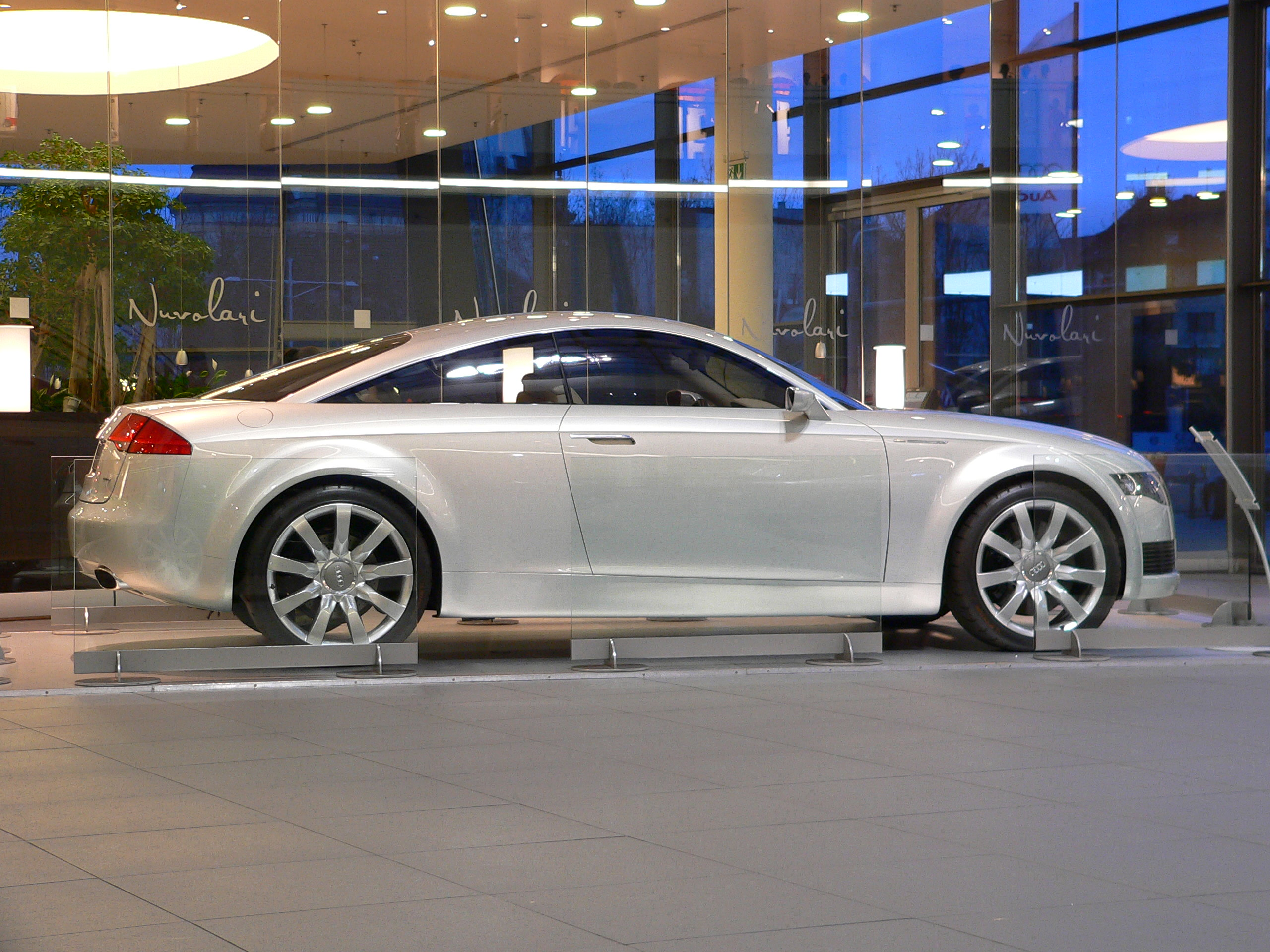 "Audi Nuvolari" (study) at the Audi-Forum of the Audi AG in the City Neckarsulm/Germany